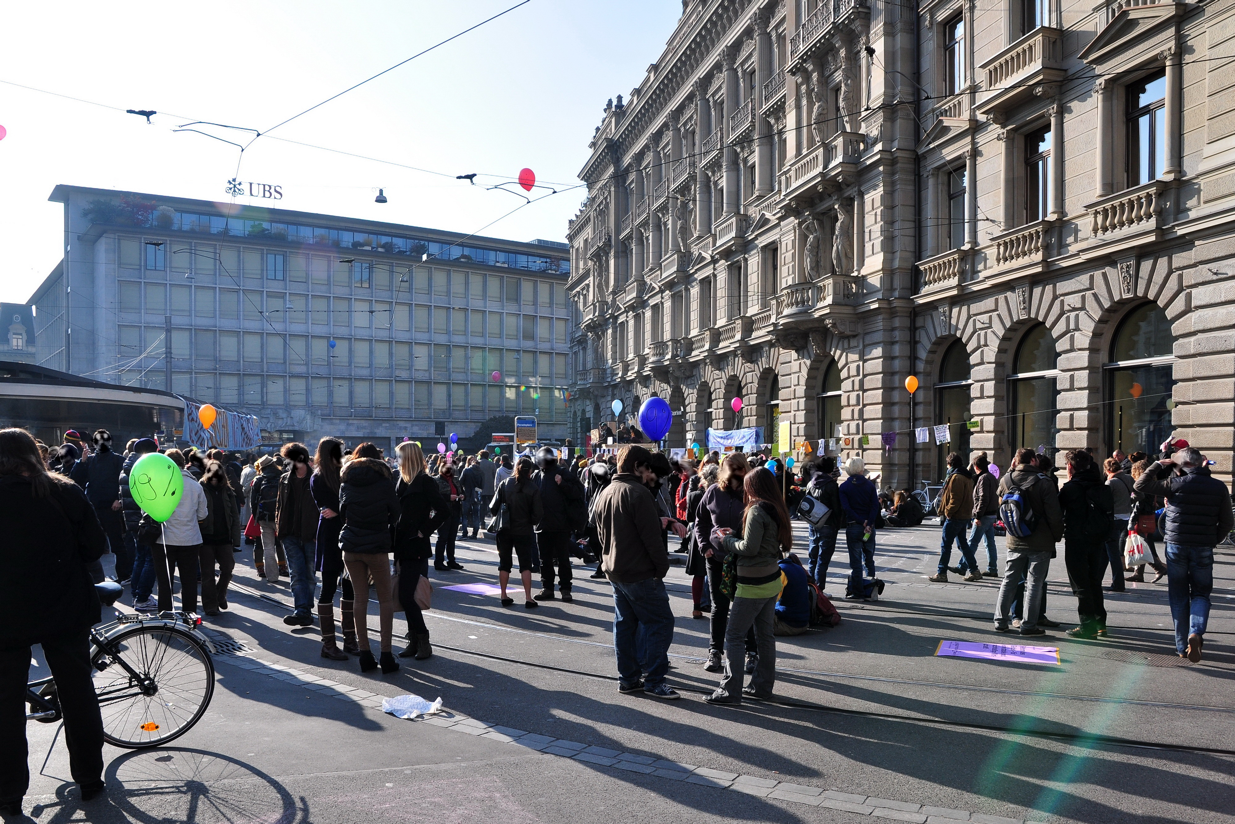 «Occupy» movement at Paradeplatz in Zürich (Switzerland)